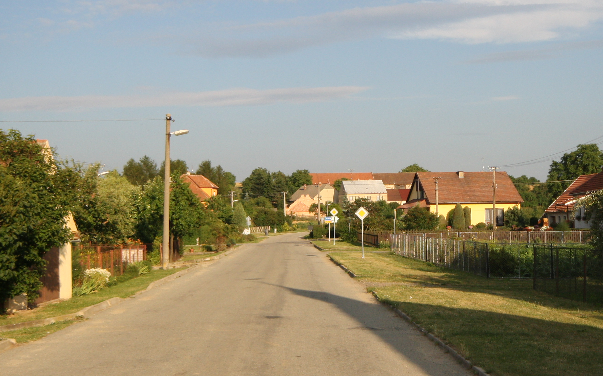 Center of Krokočín, Třebíč District.